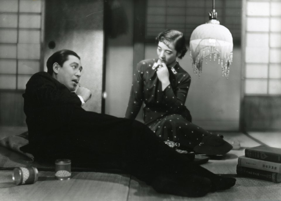 Shin Saburi and Kuniko Miyake in Konyaku sanbagarasu (1937) directed by Yasujirō Shimazu